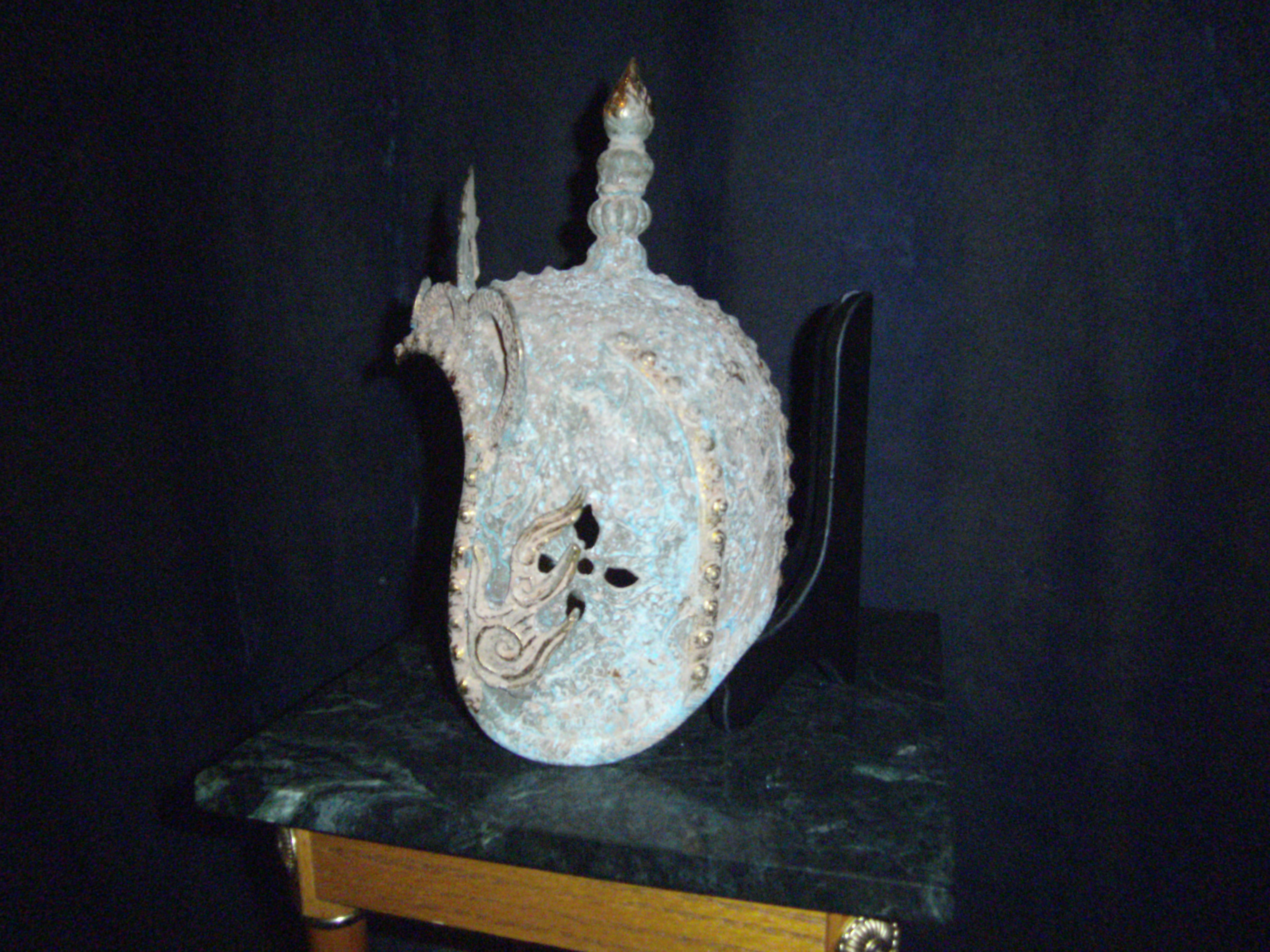 Cavalry armor helmet bronze rare from the Trần dynasty of Annam circa 12-13th century.